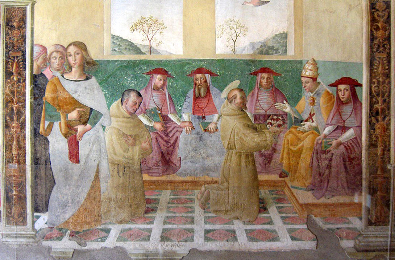 Concession of the Indulgence to St. Francis; fresco in the Rose Chapel of the Basilica Santa Maria degli Angeli, Assisi, Italy